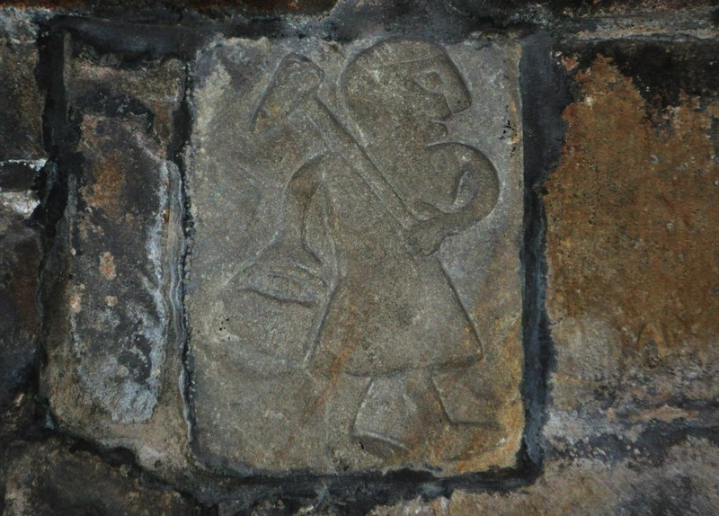 T'owd Man, near to Wirksworth, Derbyshire, Great Britain. Inside Wirksworth church is this Anglo Saxon carving from Bonsall church. It depicts a lead miner. There are many lead veins in the area, originating from Carboniferous volcanic events. SK2656 : Goodluck Mine - Veins SK2656 : Goodluck Mine - Galena in Barytes There are several more carvings, well worth a visit. The church is open most days. SK2853 : Wirksworth Church